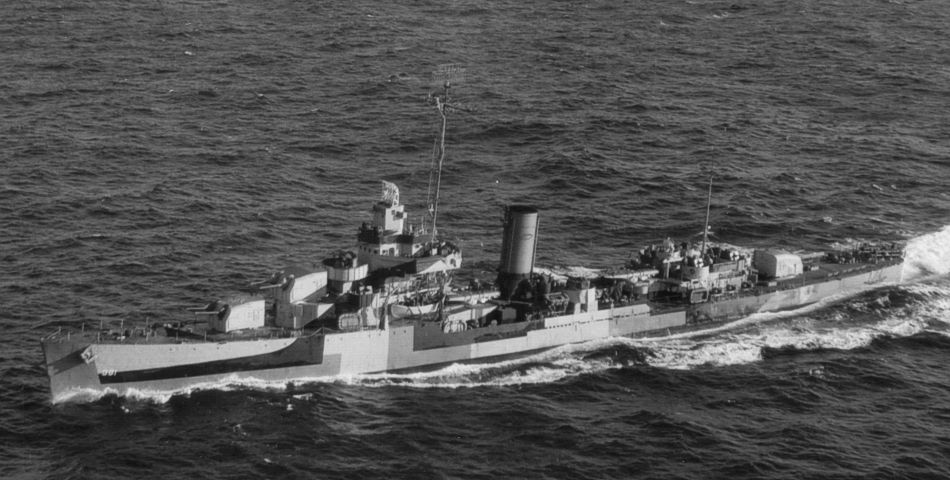 The U.S. Navy destroyer USS Somers (DD-381) underway at sea, circa 1944. Her camouflage is Measure 32, Design 3D.